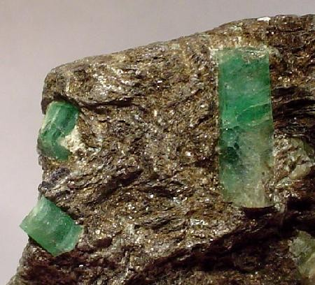 Beryl (Var.: Emerald), Biotite Locality: Habach valley, Hohe Tauern Mts, Salzburg, Austria (Locality at ) Size: 7.4 x 4.6 x 3.3 cm. Gemmy and lustrous emerald crystals are nicely placed on sparkly biotite schist matrix of this classic, old-time specimen from the Habach Valley of Austria. The large crystal is 1.5 cm, terminated and pristine. The emeralds have good color saturation. Collected in the 1800s or very early 1900s. Ex. Edna Doughty and Richard Hauck Collections.